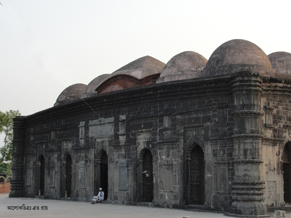 Rear view of Sona Masjid